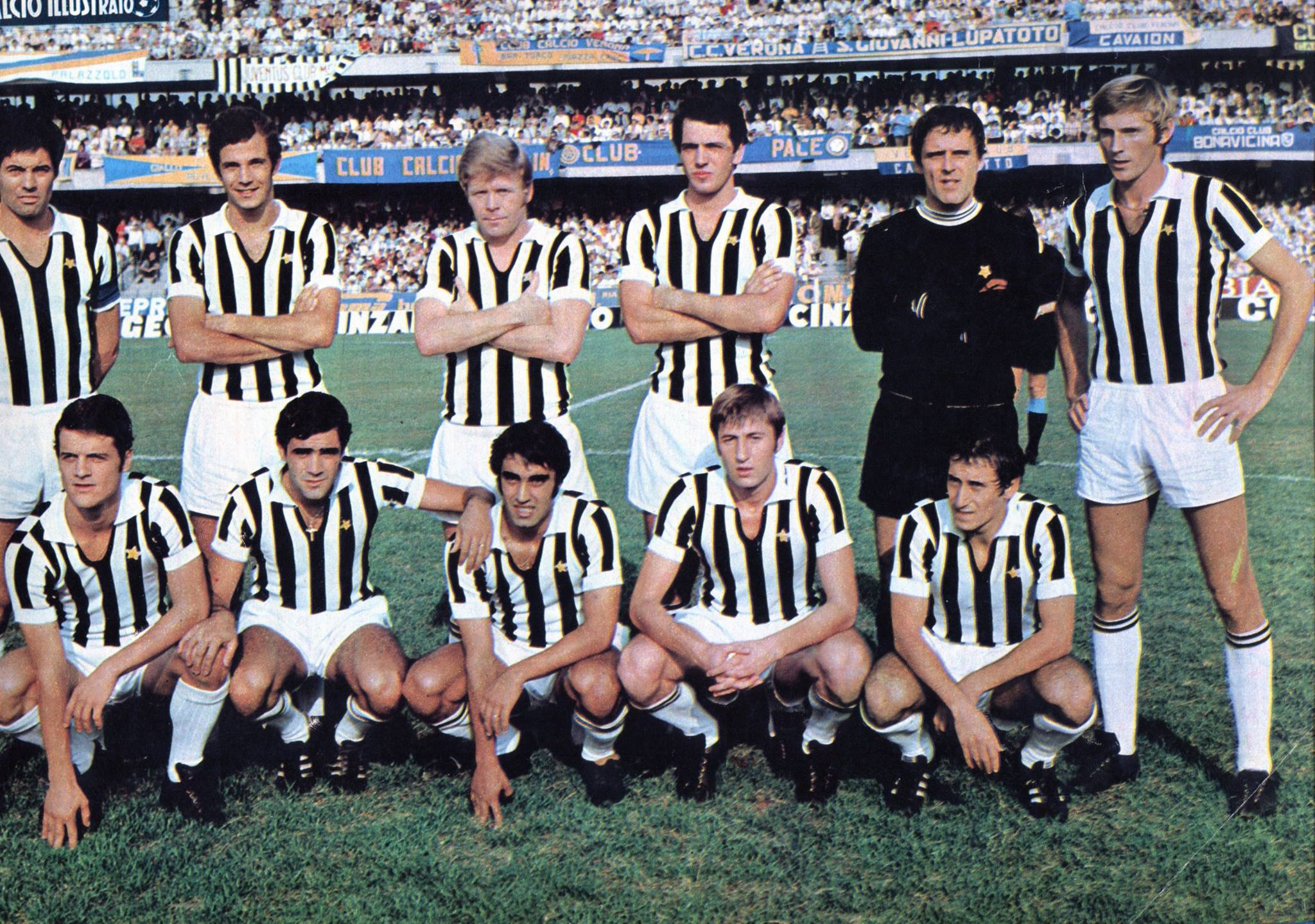 Verona, Marcantonio Bentegodi Stadium, October 11, 1970. A line-up of Juventus F.C. took to the field in the away tie versus A.C. Hellas Verona (0-0), valid for the 3rd round of the Italian Championship 1970–71 Serie A. From left to right, standing: S. Salvadore (captain), L. Spinosi, H. Haller, R. Bettega, R. Tancredi, F. Morini; crouched: F. Capello, A. Cuccureddu, P. Anastasi, G. Marchetti, G. Furino.